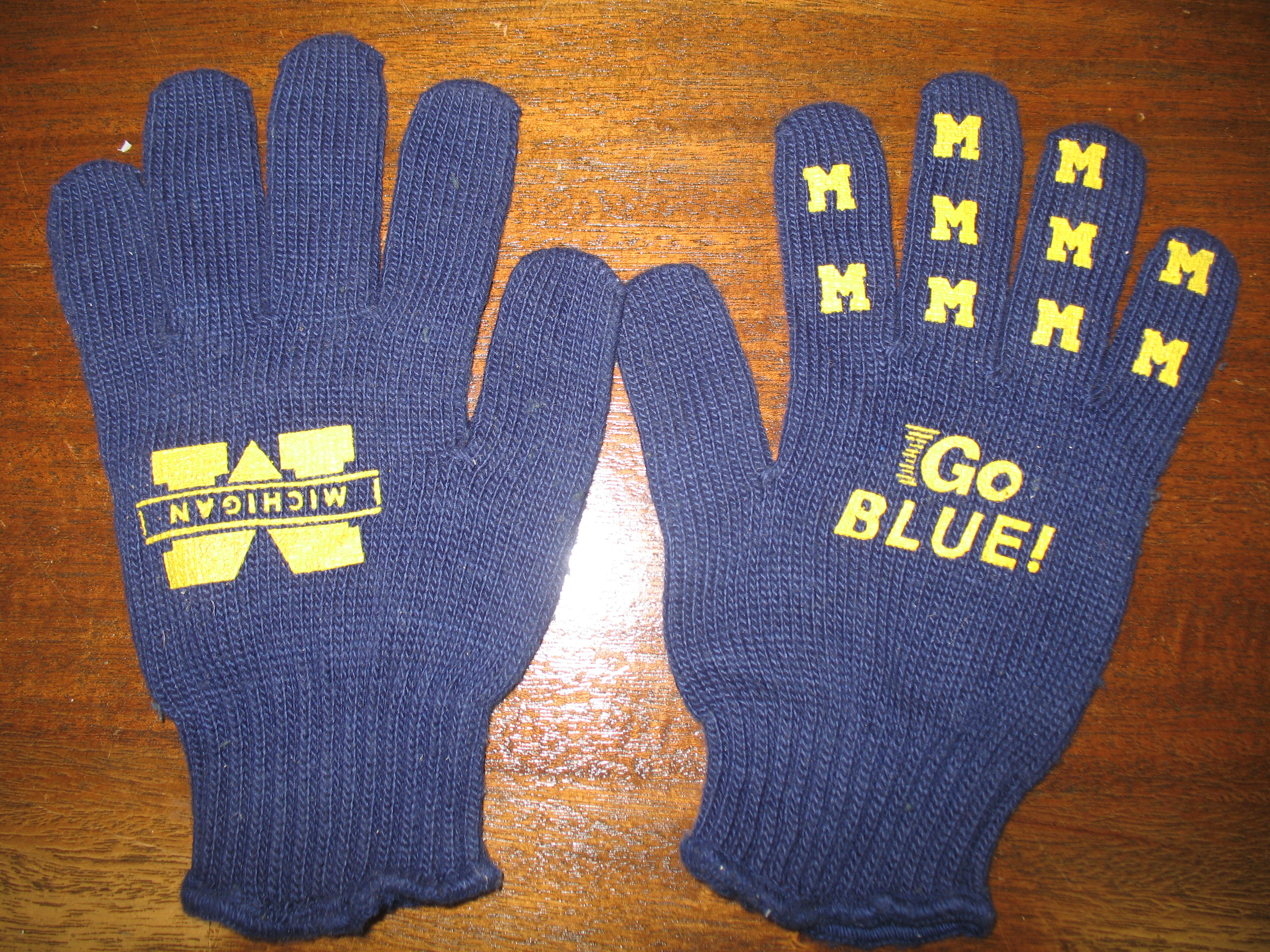 University of Michigan gloves.